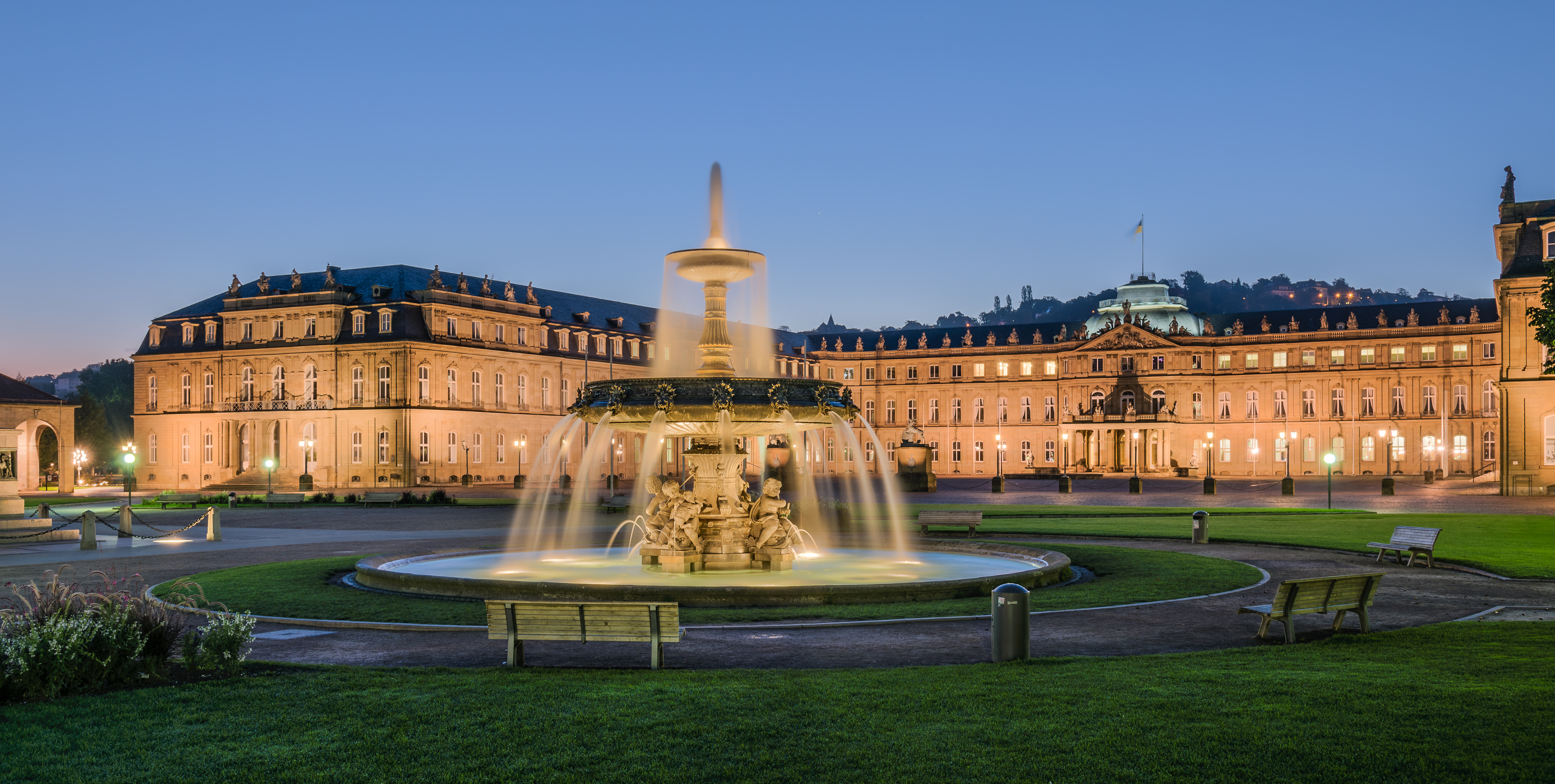 Neues Schloss (new palace), Schlossplatzspringbrunnen (Schlossplatz, Stuttgart, Germany).